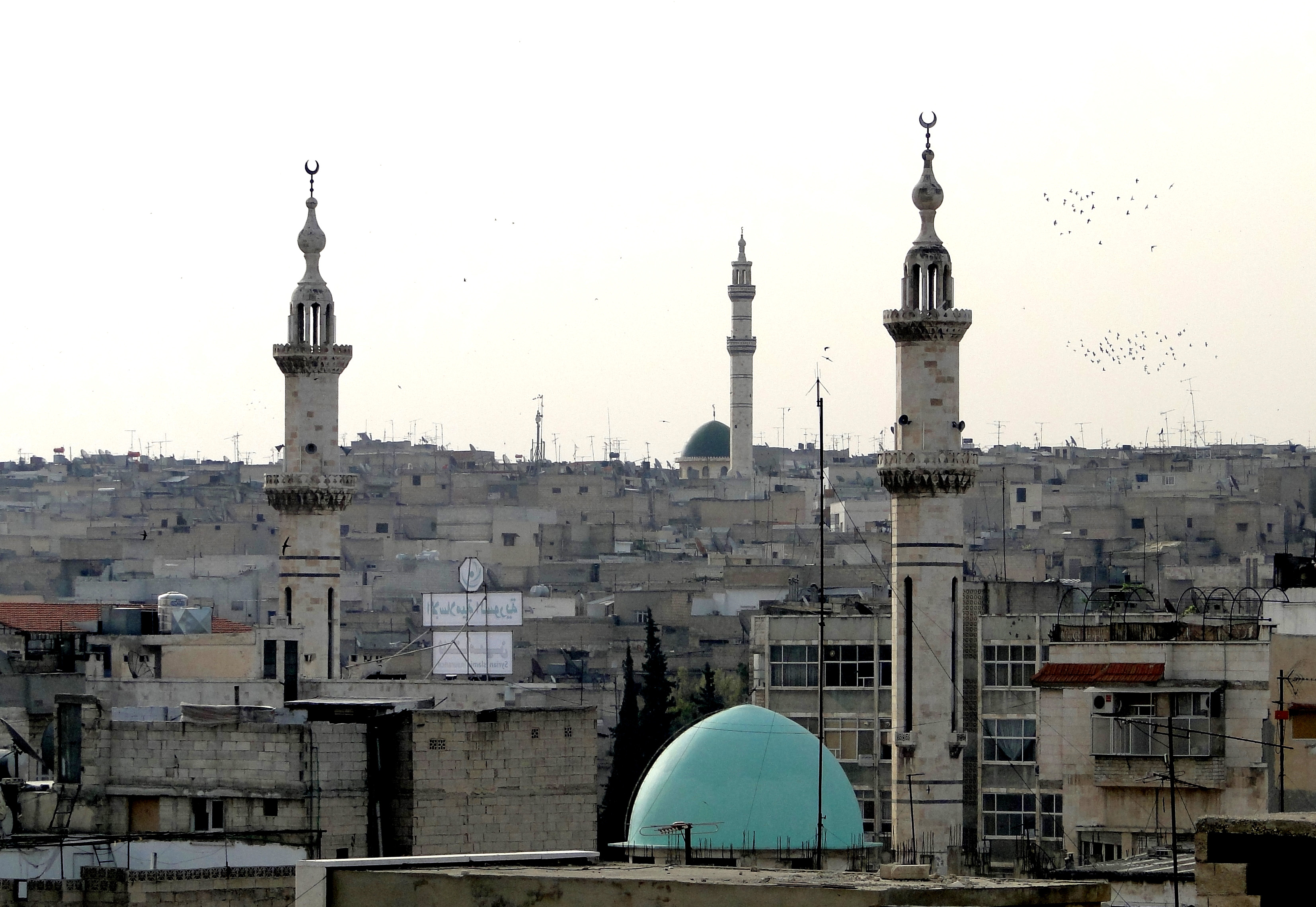 Mosques in Hama, Syria